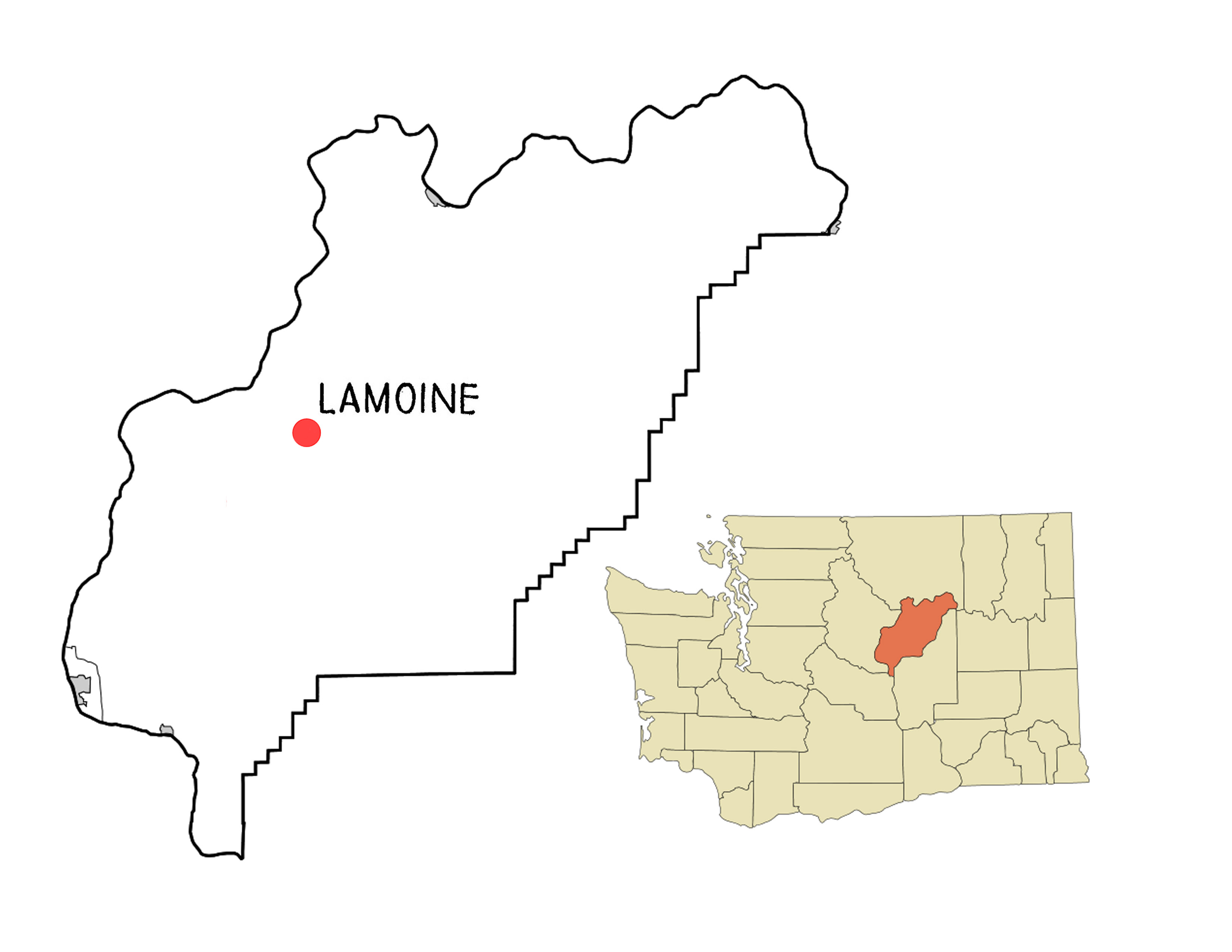 Vicinity Map of Douglas County